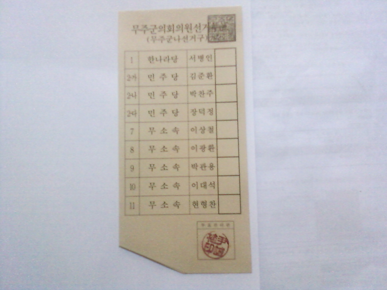 Korean 5th local election ballot paper - Muju-gun, Jeollabuk-do (Gunuiwon) Muju Na